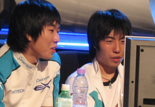 Yi Yeun Yeol conversing with Han Deong Wook